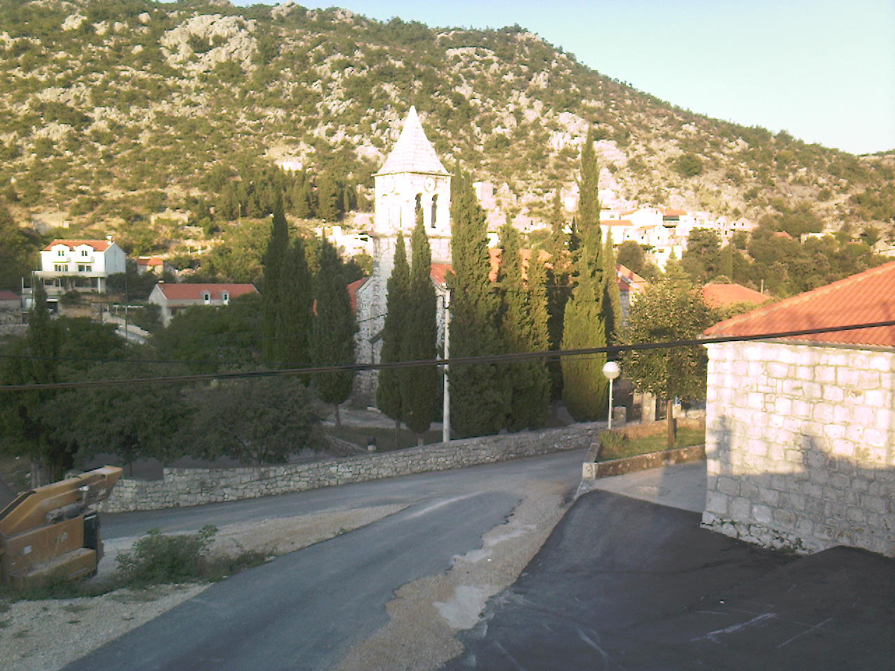 Church of St. George in Osojnik near Dubrovnik